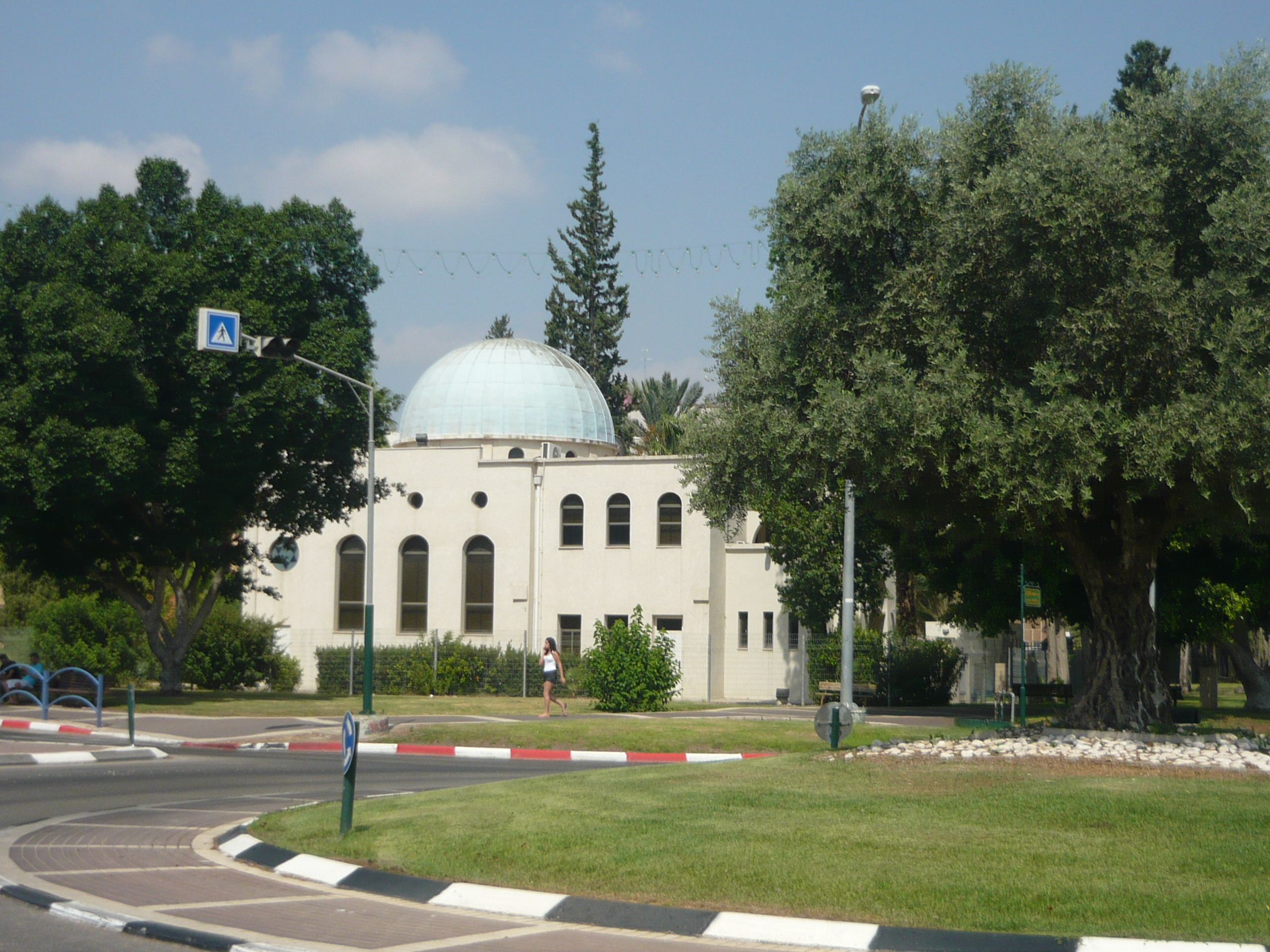 great synagogue in Afula בית הכנסת הגדול בעפולה